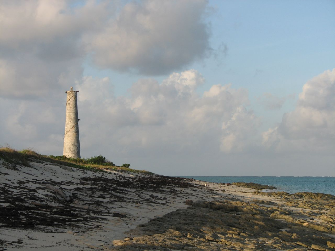 Was built in the 30's apparently, worked for 3 months, broke down and has been there ever since without working...